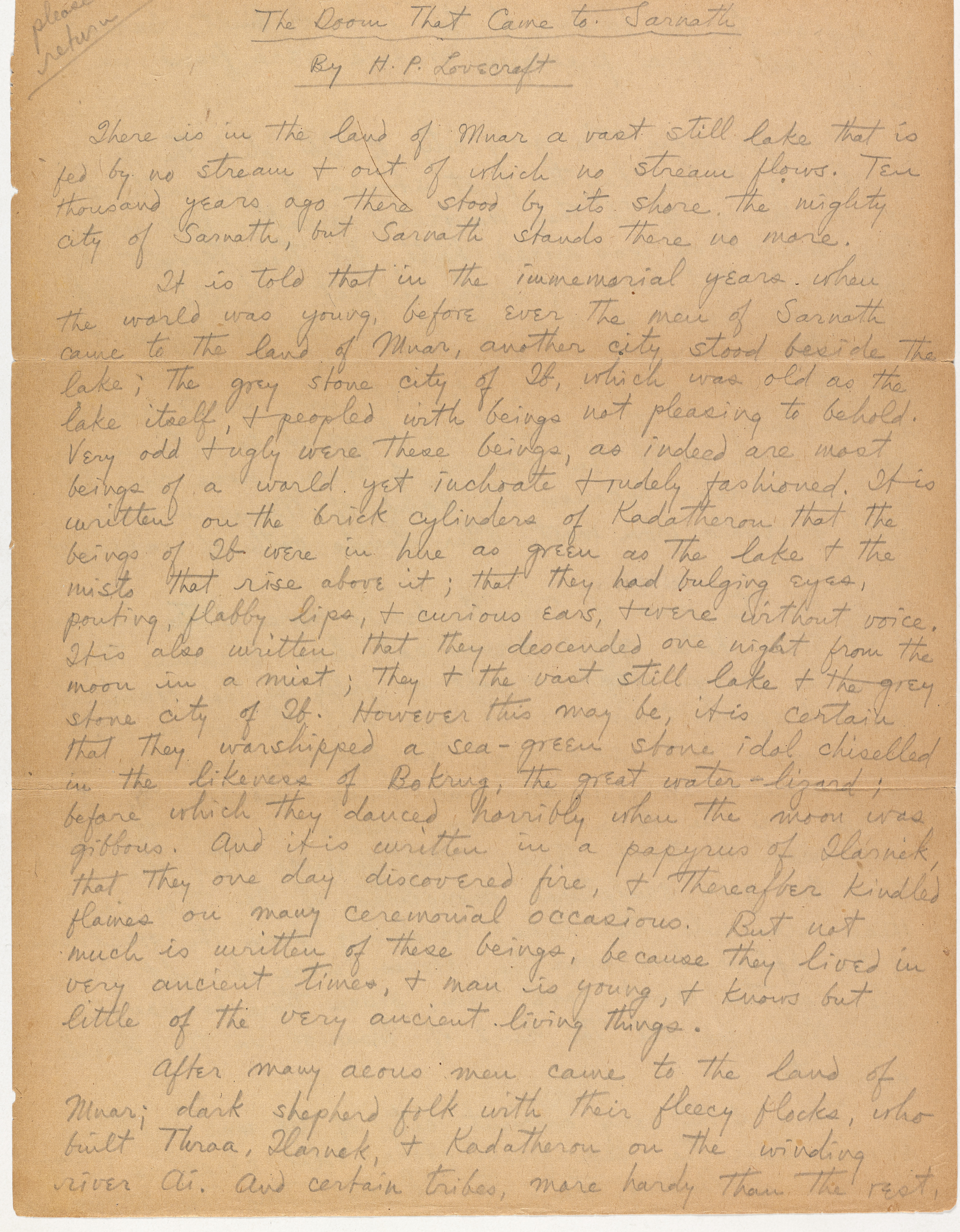 First page of the manuscript The Doom that Came to Sarnath.